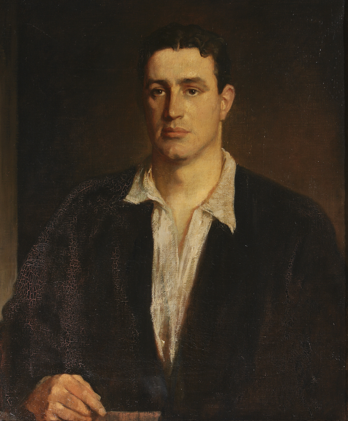 Philpot, Glyn Warren; Sir Edward Charles Benthall (1893-1961), KCSI, as a Young Man ; National Trust, Benthall Hall